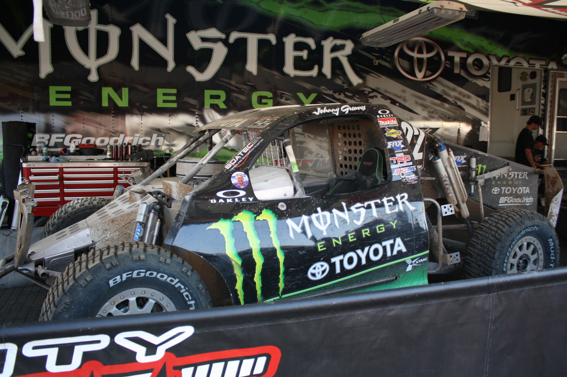 A Johnny Greaves (racer) Trophy Truck at the 2009 BorgWarner World Championship at Crandon International Off-Road Raceway.